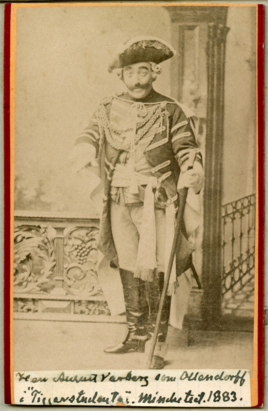 August Warberg (1842-1915) as von Ollendorff in Der Bettelstudent (The Beggar Student) an operetta in three acts by Carl Millöcker